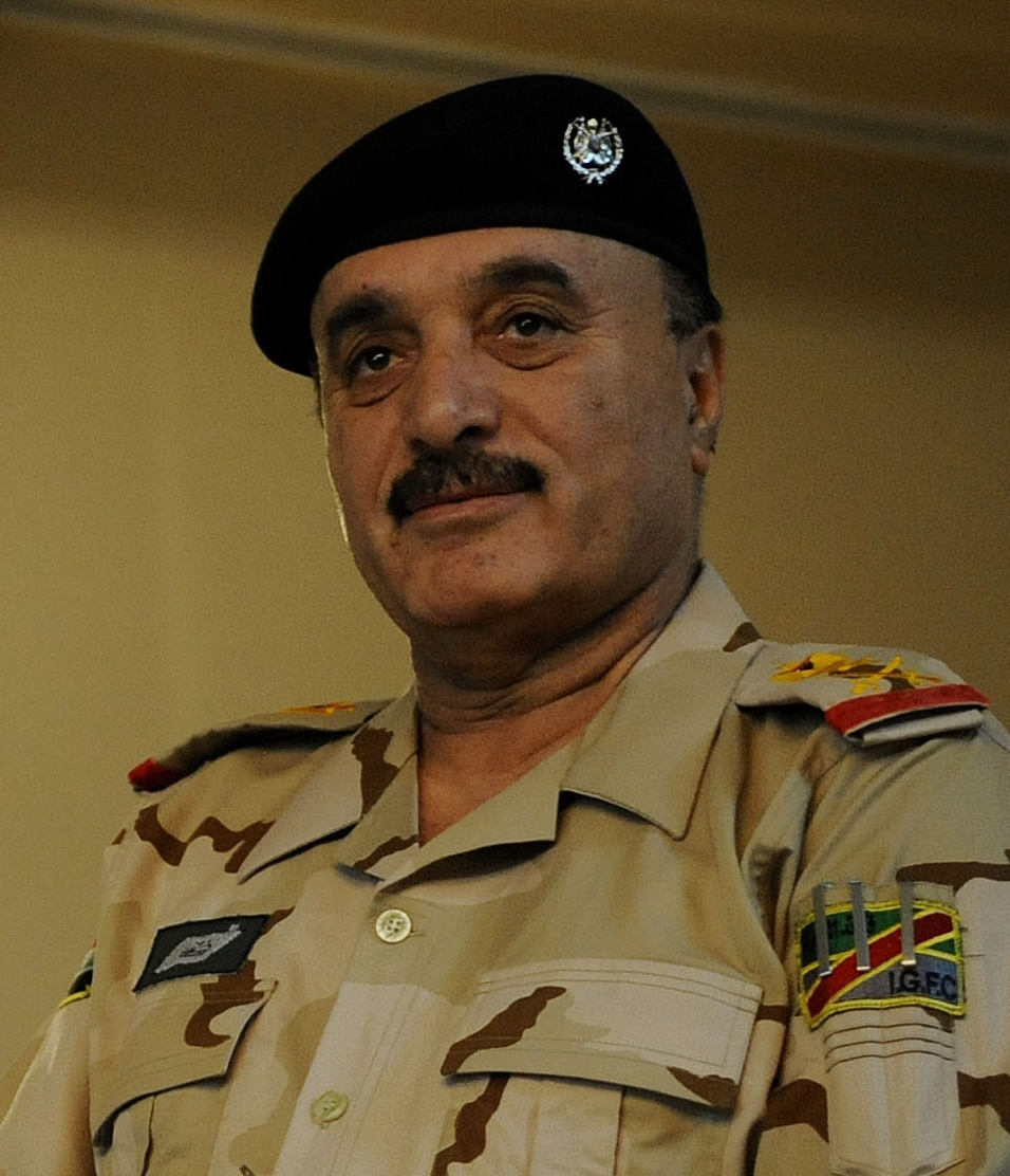 Gen. Ali Ghaidan, commander of the Iraqi army's ground forces during a ceremony at Forward Operating Base Diamondback in Mosul, Iraq, Aug. 4.